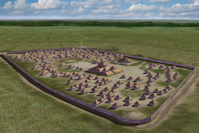 Artists conception of the Nodena Mounds site, a Mississippian culture archaeological site located east of Wilson, Arkansas and northeast of Reverie, Tennessee in Mississippi County, Arkansas, USA. Around 1400–1650 CE an aboriginal palisaded village existed in the Nodena area on a meander bend of the Mississippi River. All rights held by the artist, Herb Roe © 2016.